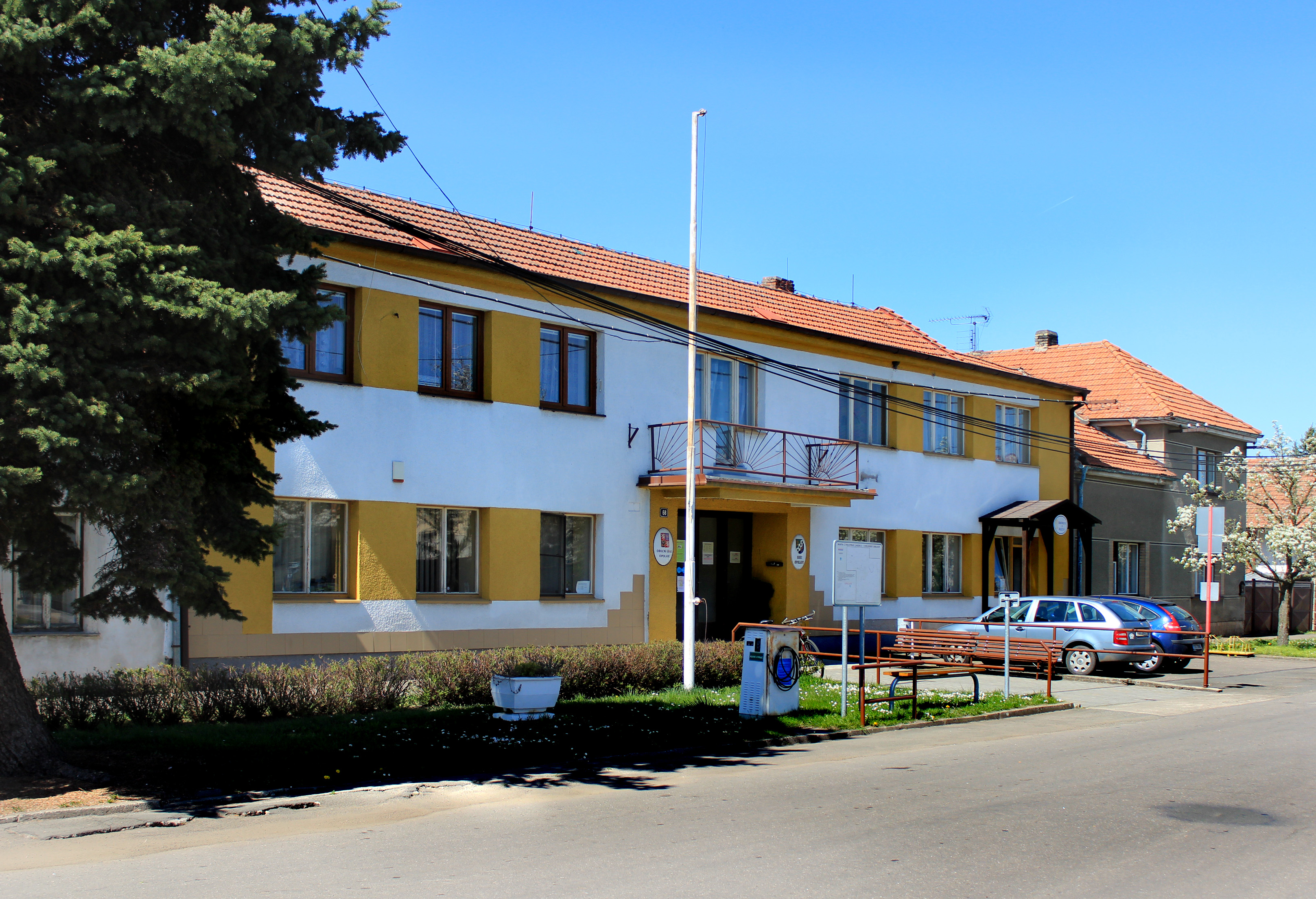 Municipal office in Opolany, Czech Republic.